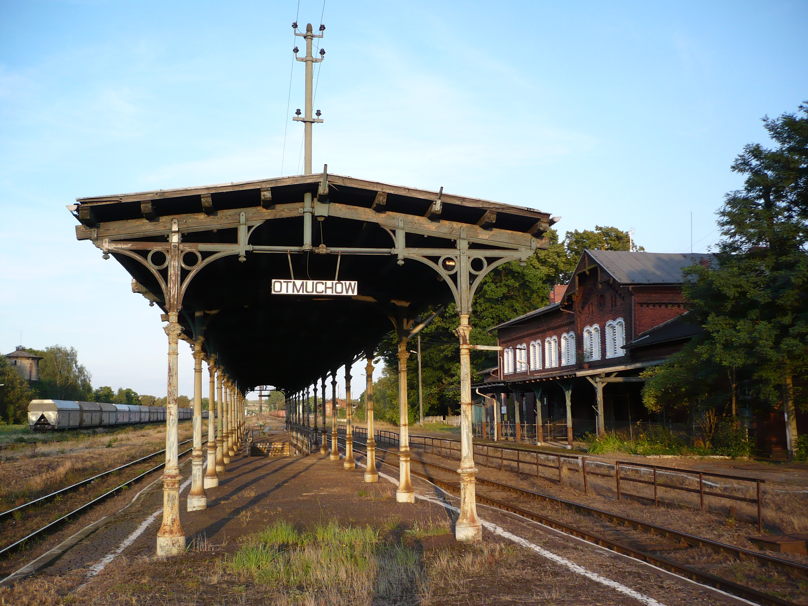 Railway station Otmuchów (German: Ottmachau)